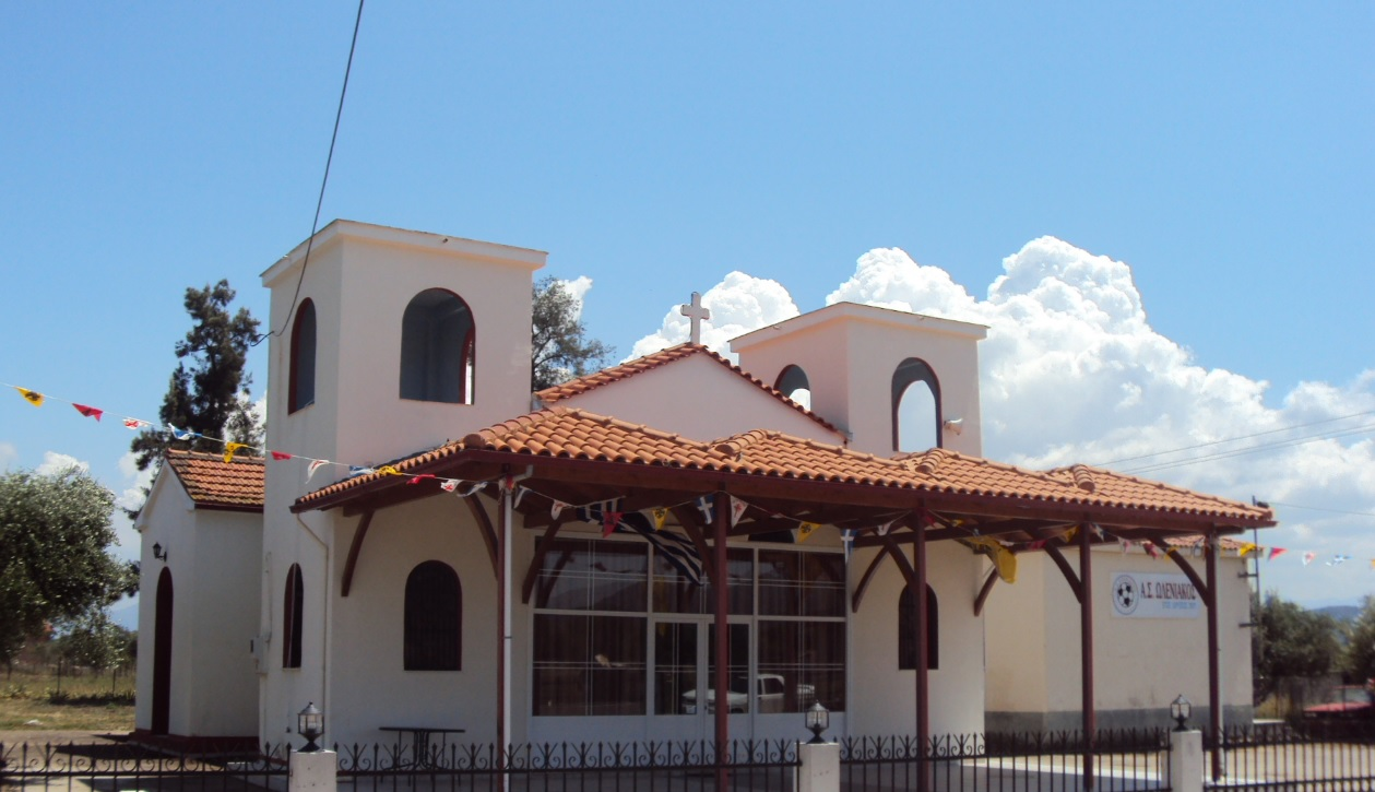 The church of Holy Trinity in Kalamaki Olenias, Achaia.